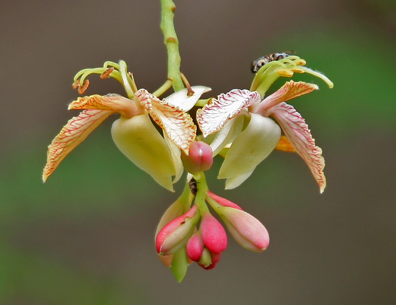 Tamarindus indica - Indian date, Tentuli, Tẽtul, Chintapandu, Hunase, Tamarind • Hindi: Imli इमली • Bengali: Amli • Manipuri: মংগে Mange • Tamil: Puli புளி • Telugu: Chinta • Marathi: Chinch - at Ananthagiri Hills, in Rangareddy district of Andhra Pradesh, India.